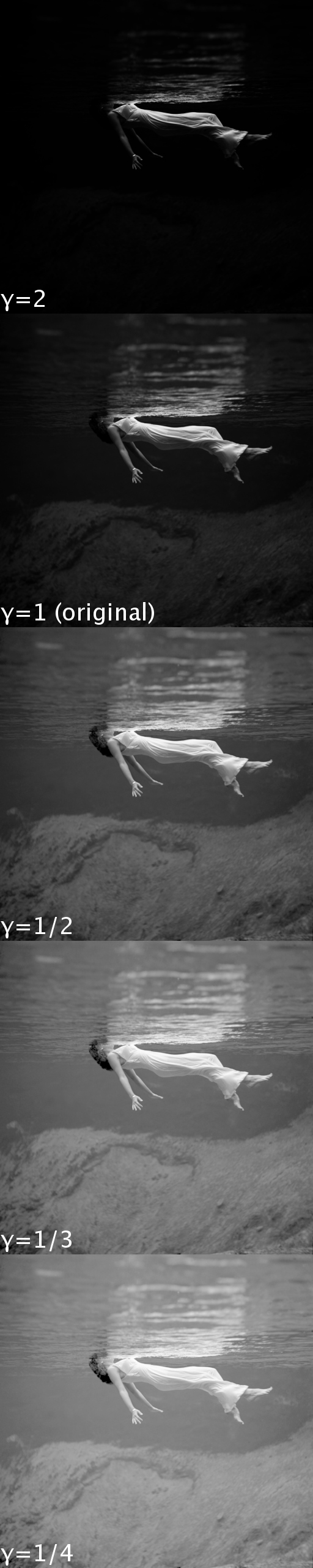 A demonstration of the effect of gamma correction on images.